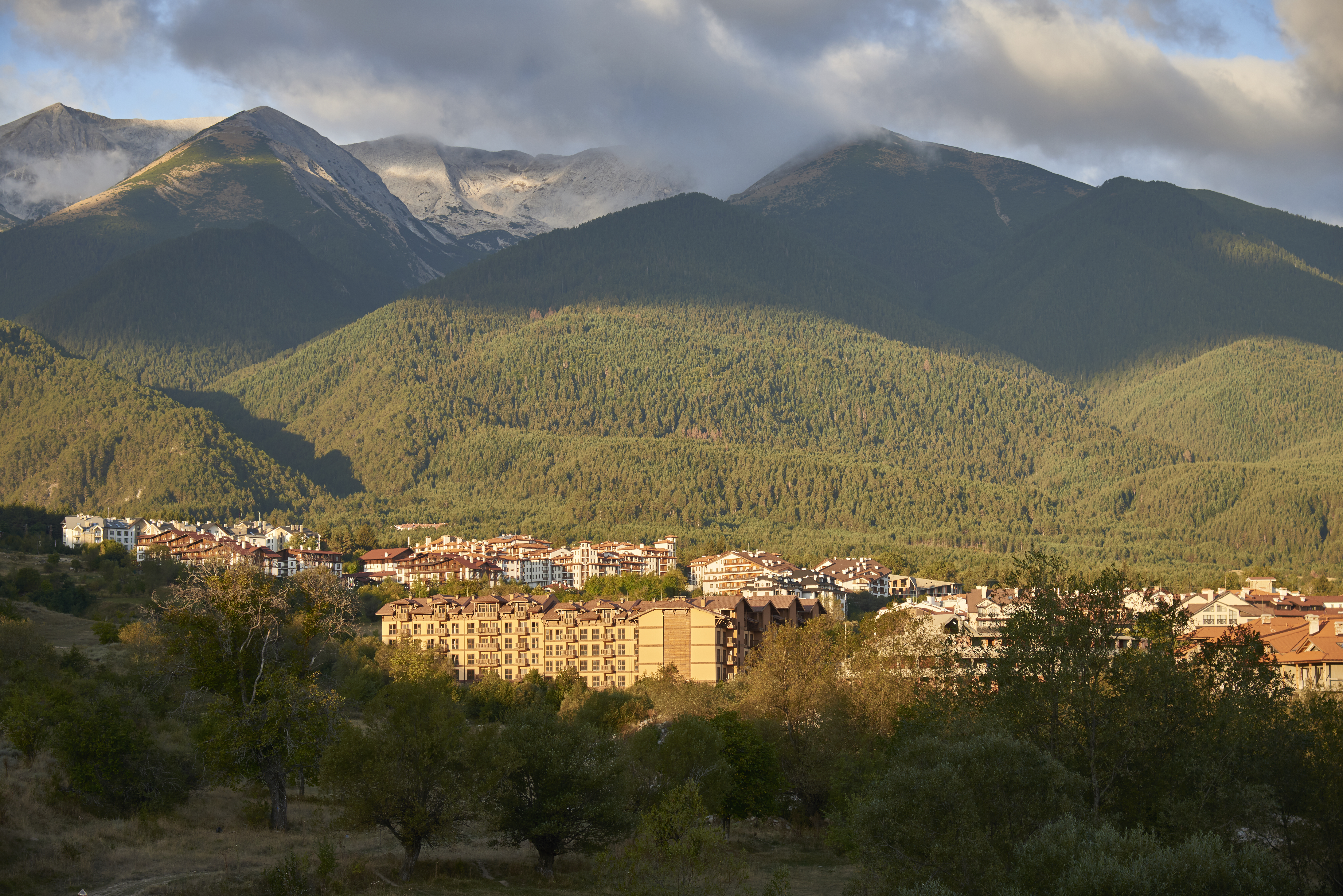 View from hotel St. Ivan Rilski in Bansko, Bulgeria